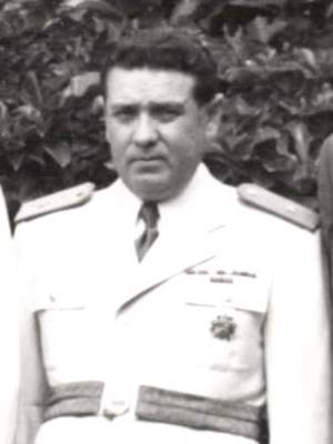 Inventarski broj: 1952 14 111